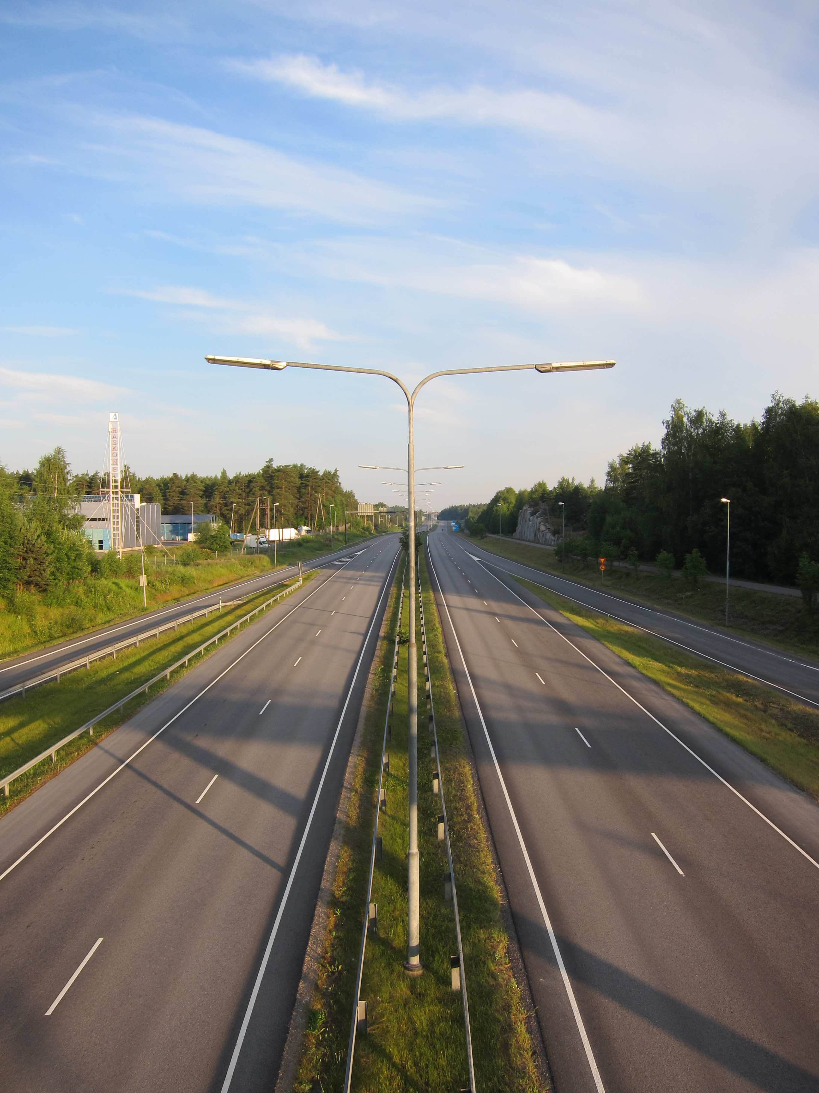 Kärsämäki interchange at Finnish national road 40 (part of European route E18) in Turku, Finland.